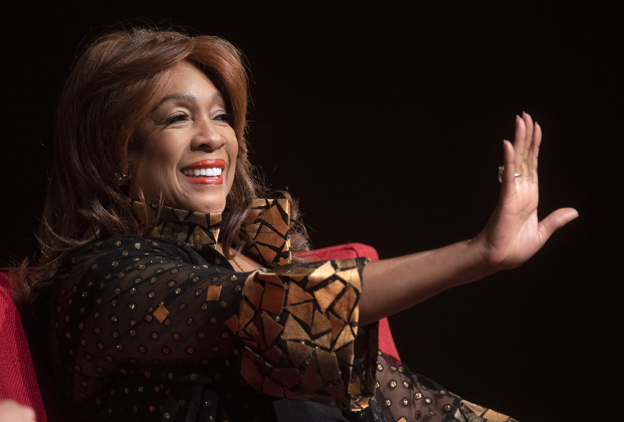 On Wednesday, Dec. 4, 2019, Friends of the LBJ Library presented an evening with Mary Wilson, a founding member of The Supremes, in honor of the LBJ Library special exhibition, Motown: The Sound of Young America.